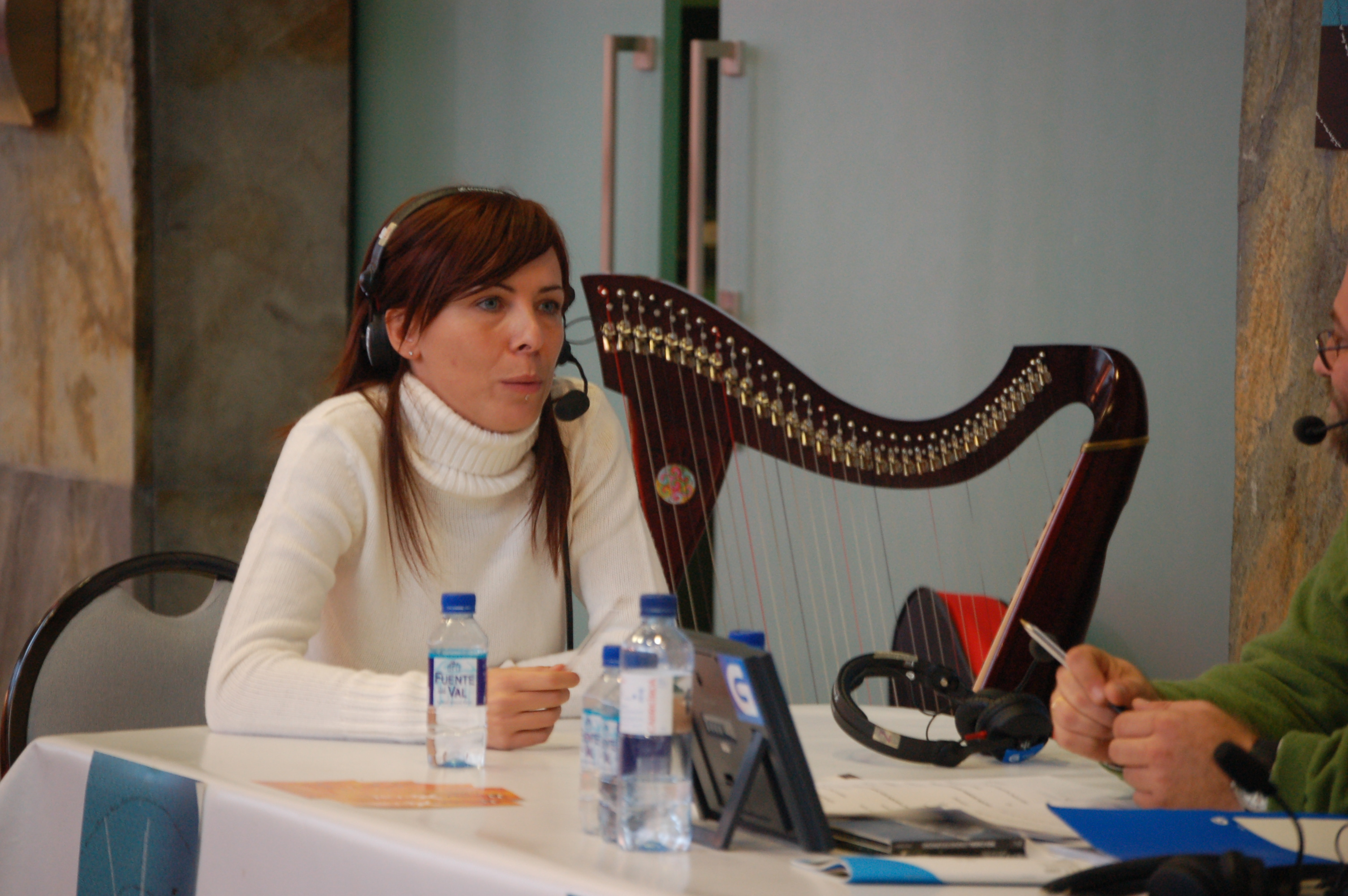 Susana Seivane interview (Lume na palleira - Radio Galega).